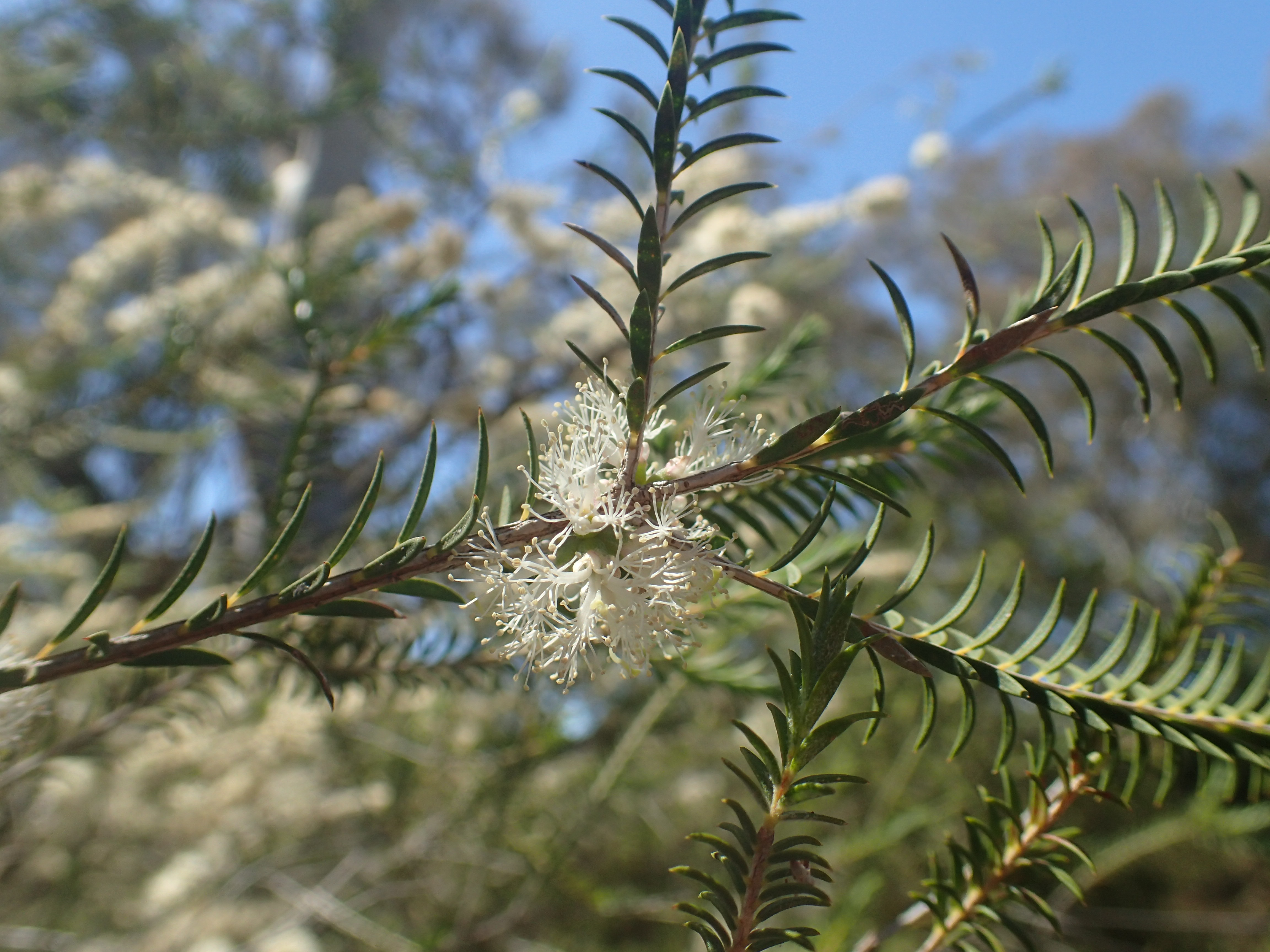 Melaleuca oxyphylla leaves and fruit